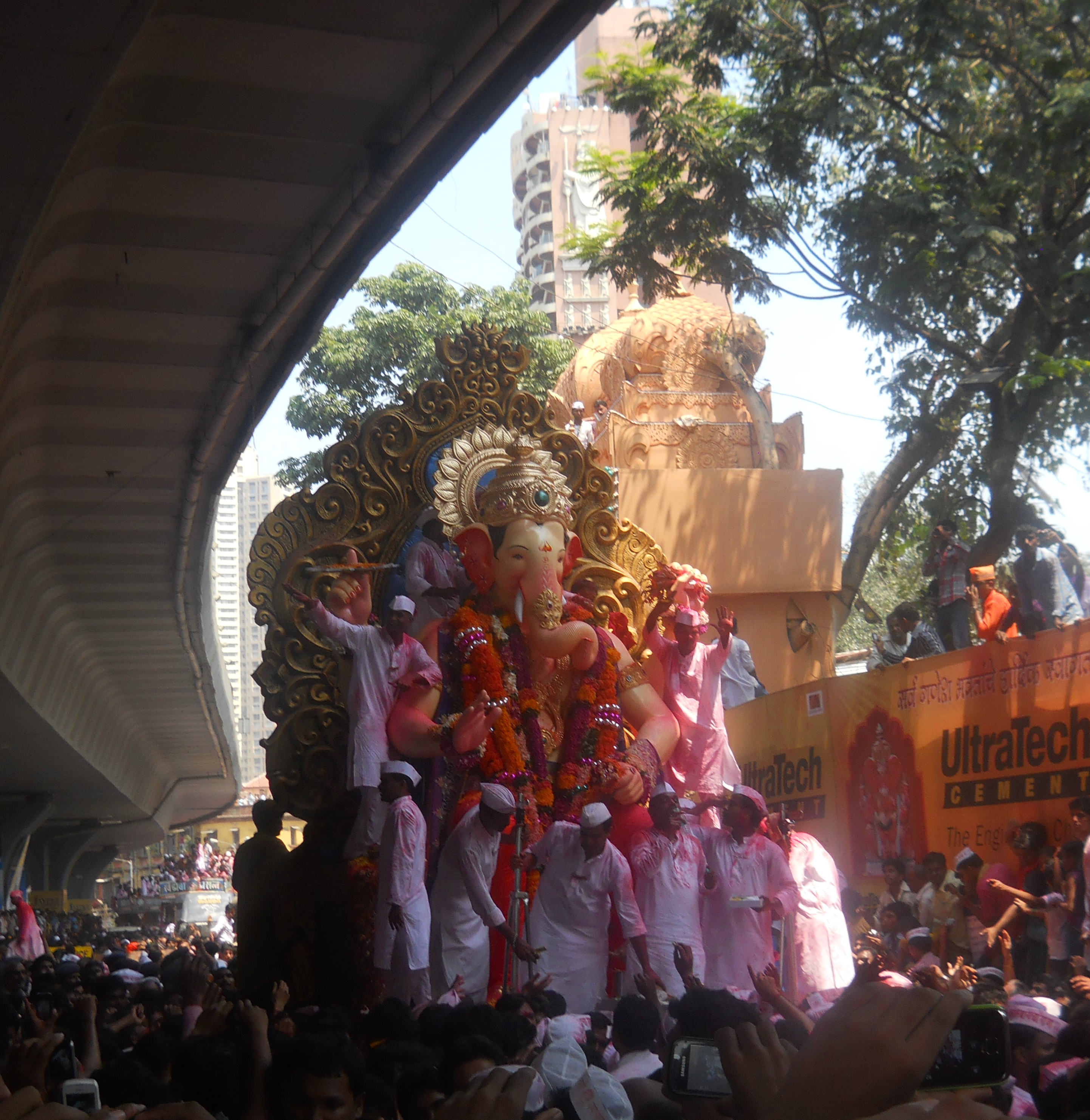 Lalbaugcha Raja on its way for viserjan